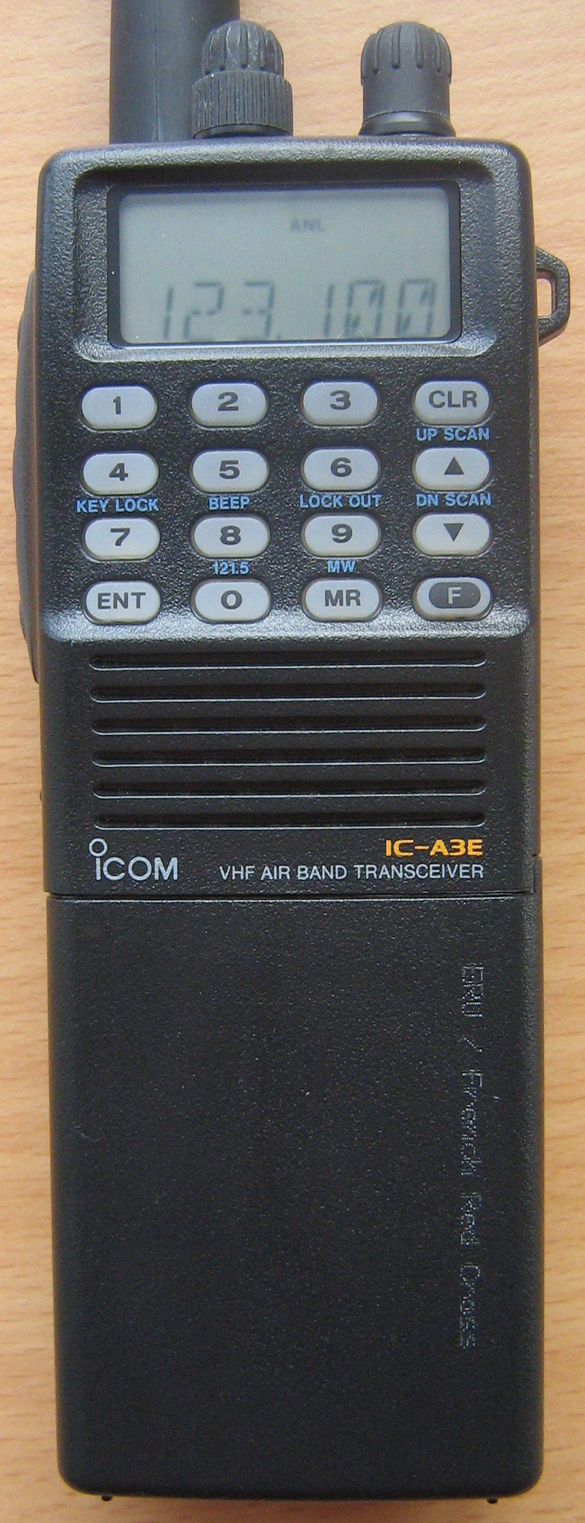 TX RX 118 à 137 MHz